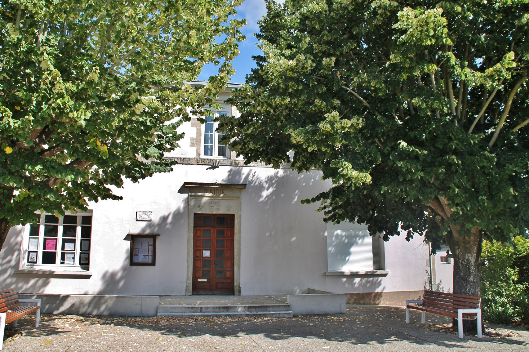 La Mairie